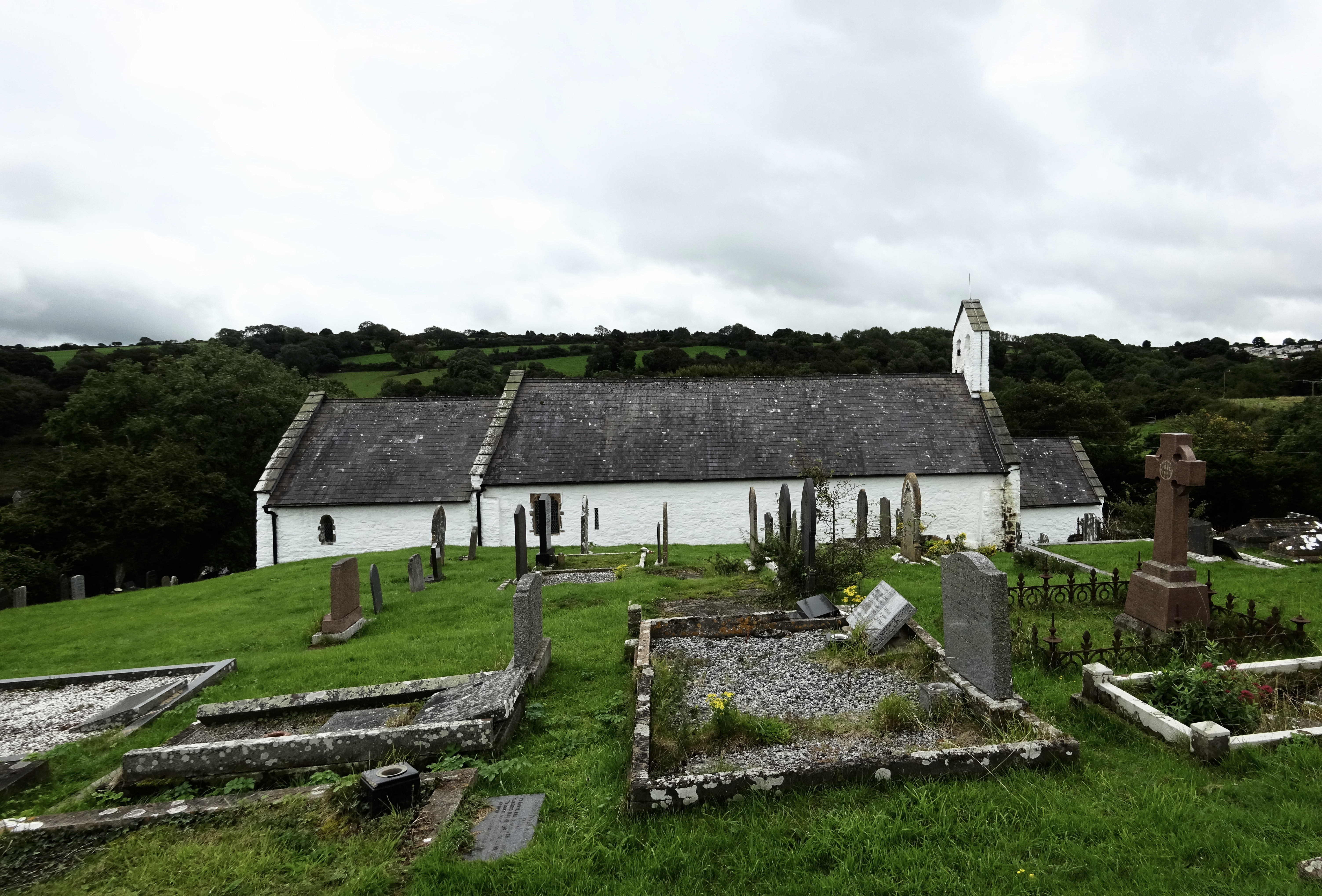 St Michael's Church, Penbryn, Ceredigion, Wales. Grade I listed building.